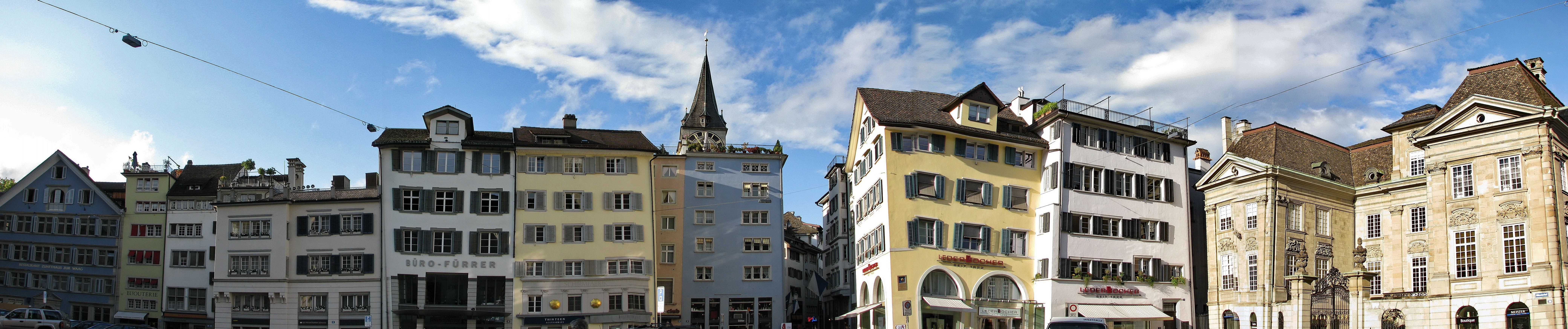 Panoramics of Münsterhof square in Zürich, Guild house zur Waag to the left, Guild house zur Meisen to the right